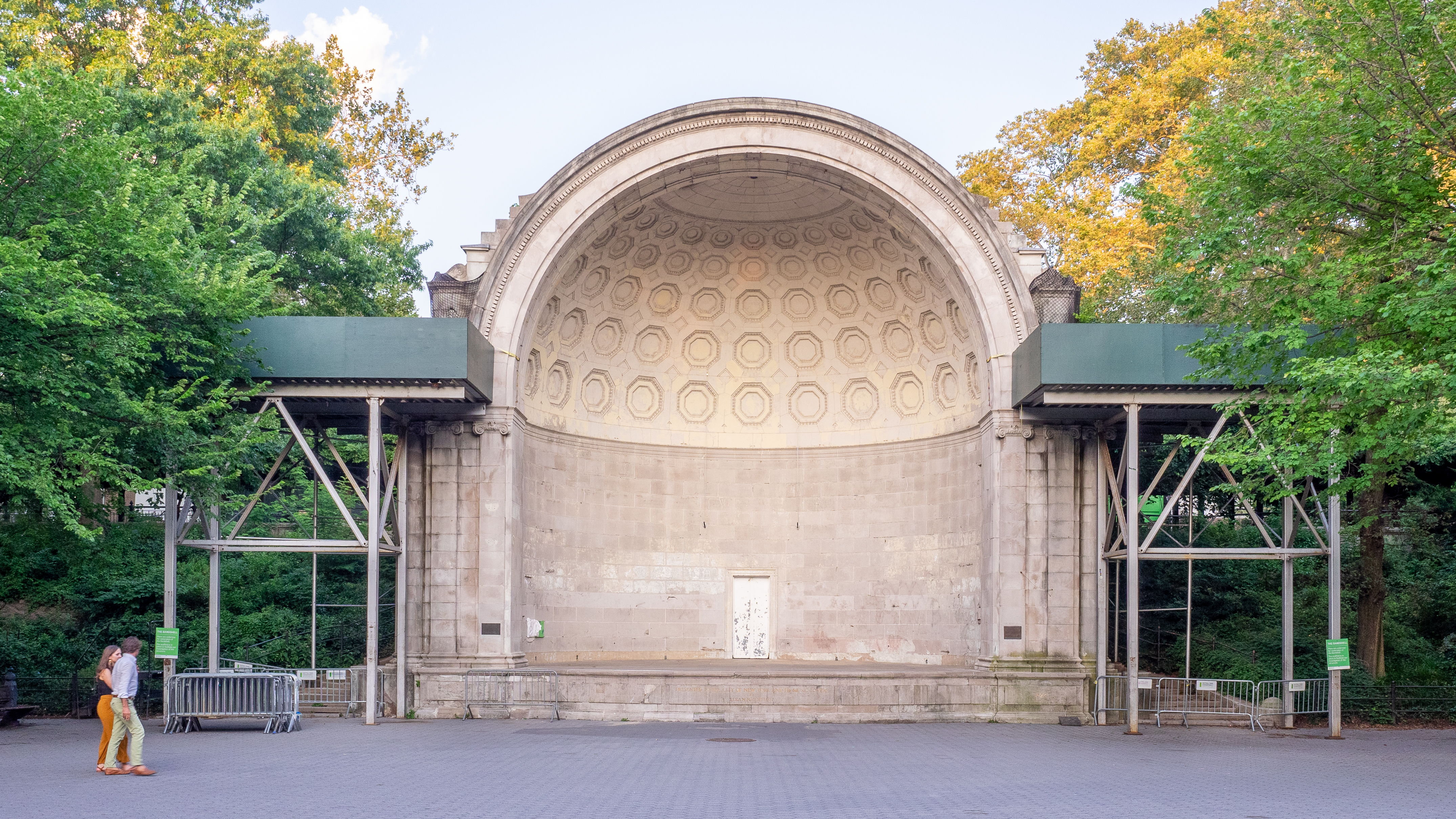 Central Park, Manhattan, New York City